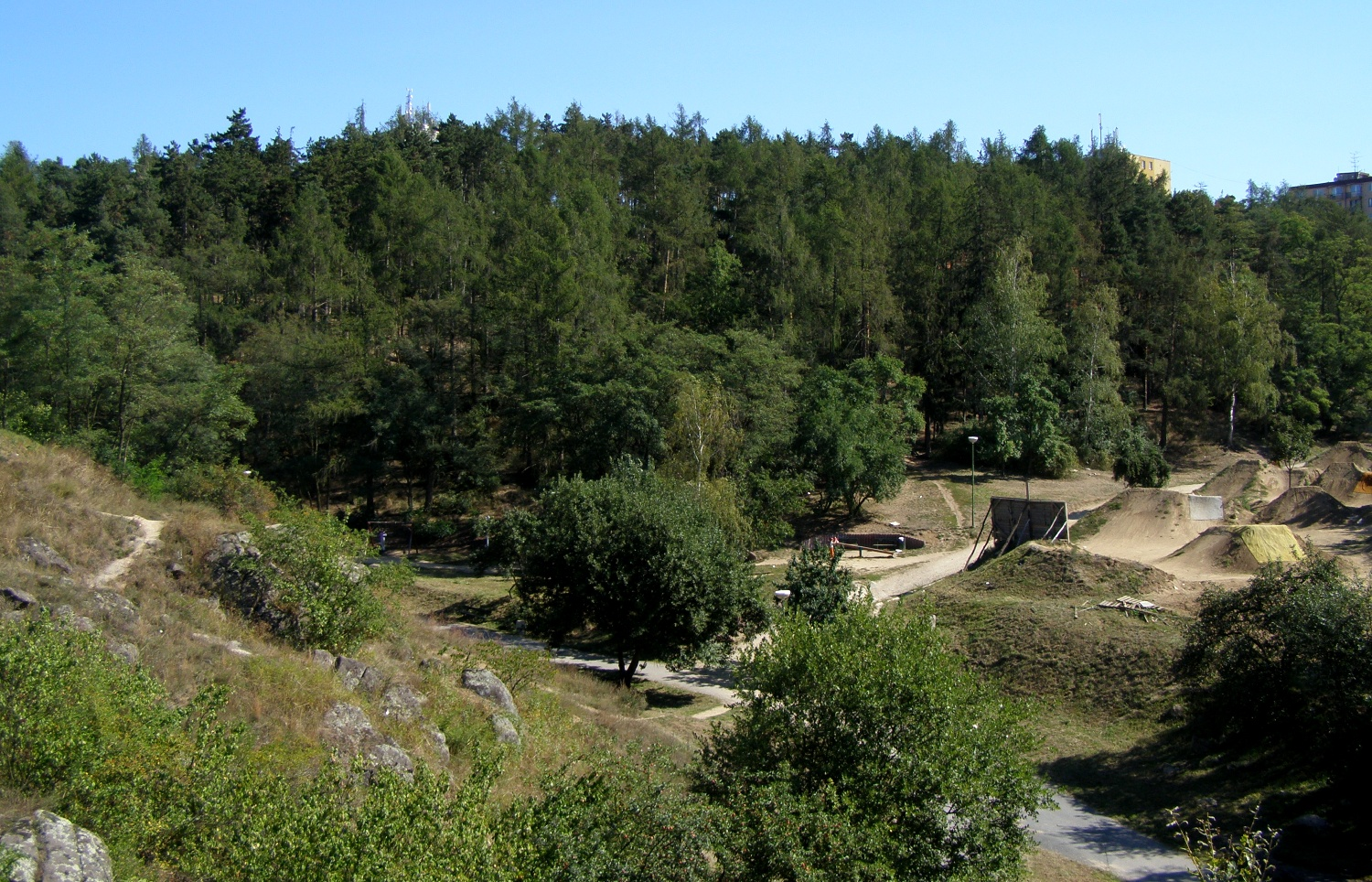 Třebíč-Nové Dvory. Hájek (public park)